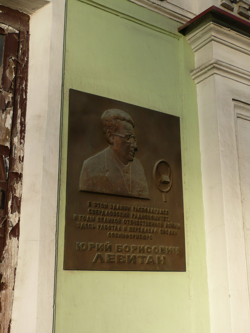 A plaque on Pervushin House